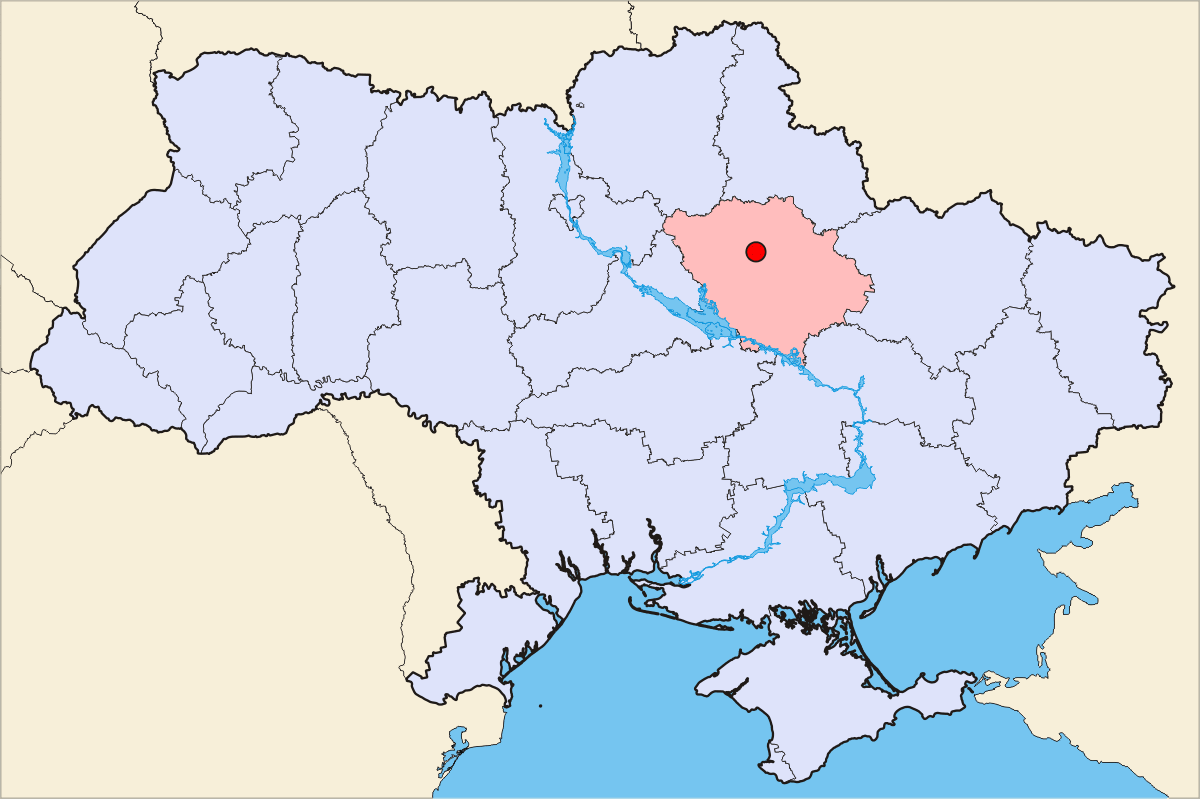 Description = Myrhorod geographical position Source = own work, Skluesener Date = 21.01.2006 Author = Skluesener Credits = Colours chosen according to a map of steschke